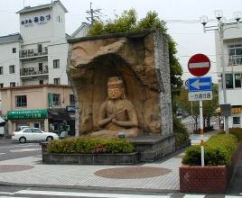 Usuki Station square, Usuki (Kyushu, Japan, April 2002) Photo by poster